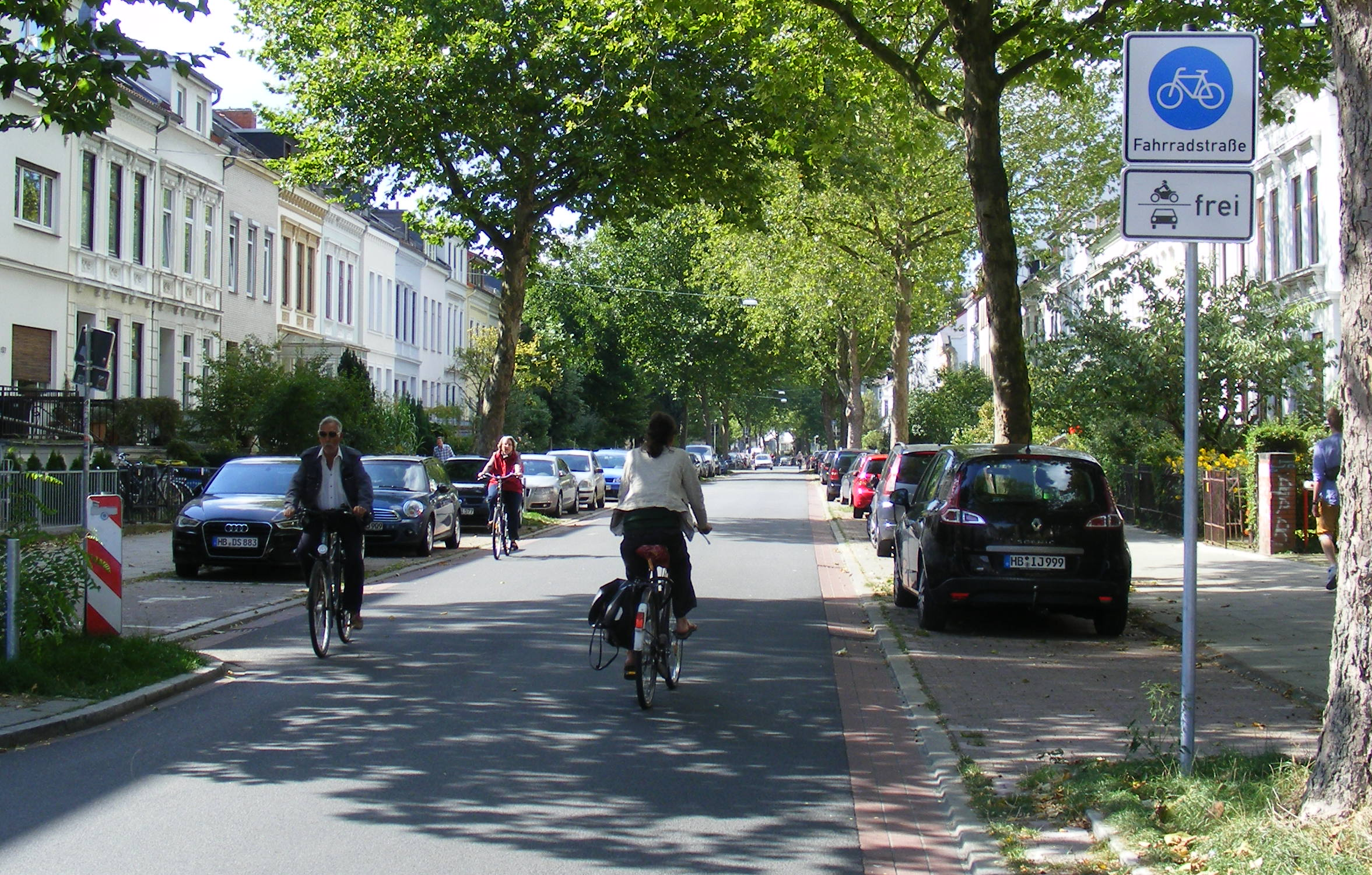 Cycling lane Humboldtstraße in Bremen: Before major draiange repairs in 2013/14, there were cycletracks, the space of which now was used to enlarge the sidewalks